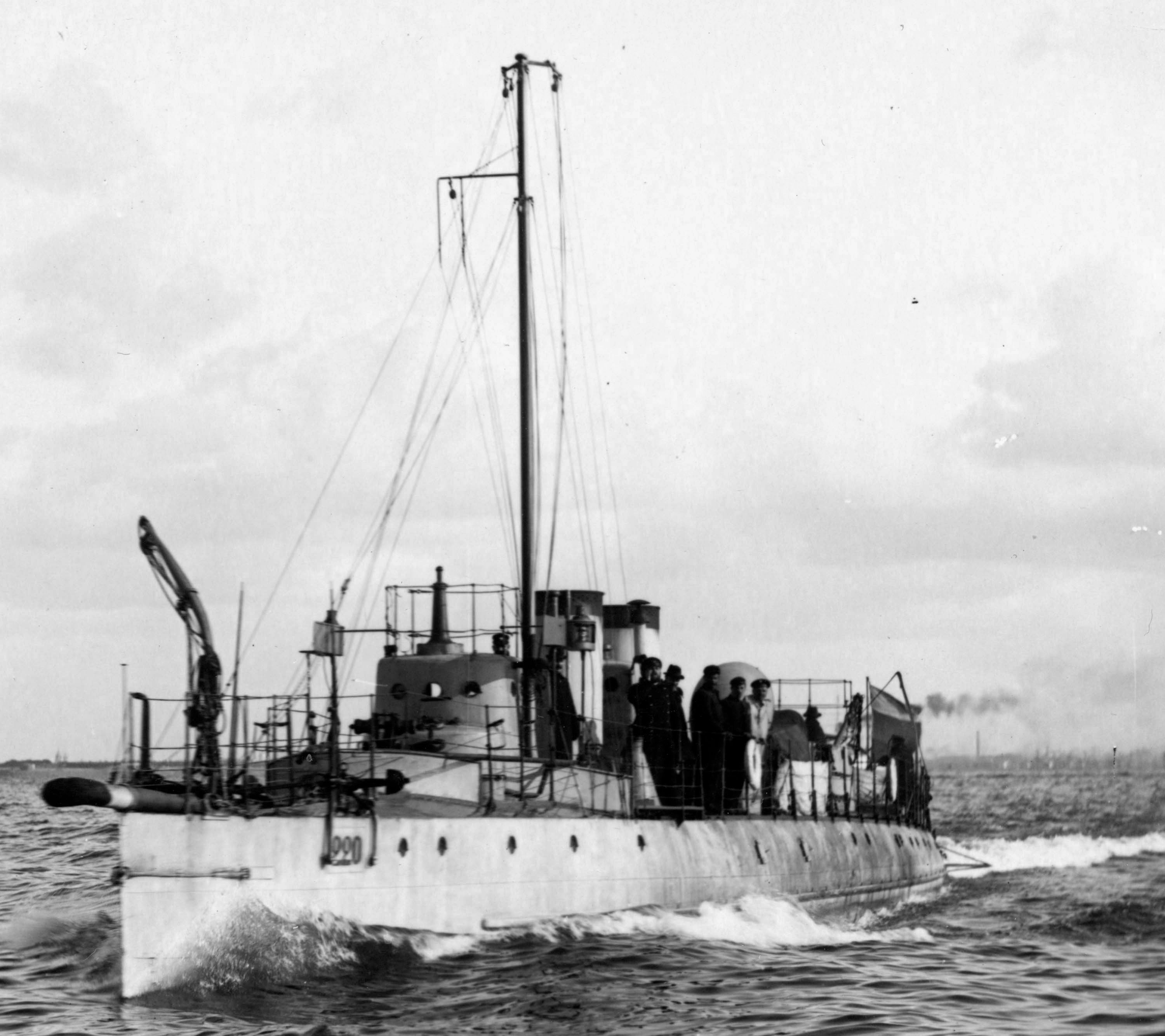 The Imperial Russian topedo boat No.220.